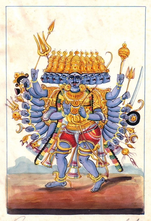 Motive-description: RAVANA, indian god – Demon-King of Lanka (Sri Lanka). Watercolor-painting by an unknown artist around 1920.